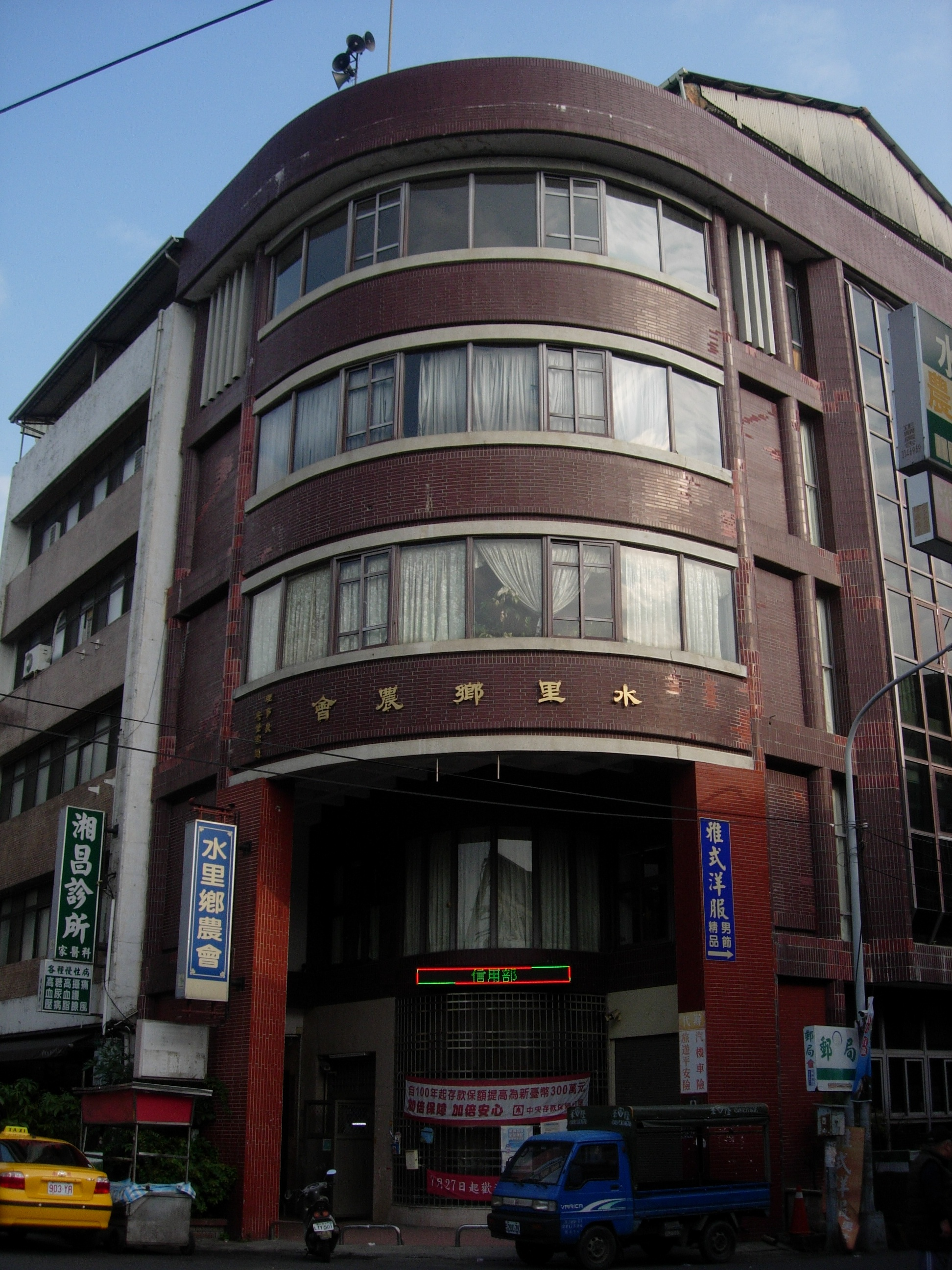 Shueili Farmers' Association